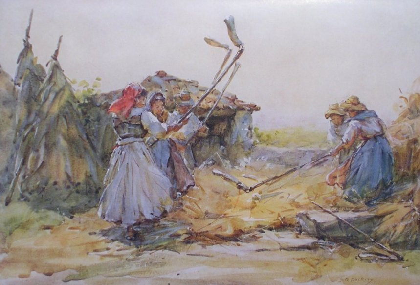 Watercolour by Susanna Roope Dockery. English painter living in Portugal painitng in the late 19th and early 20th centuries